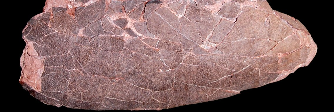 Crop of file in filename